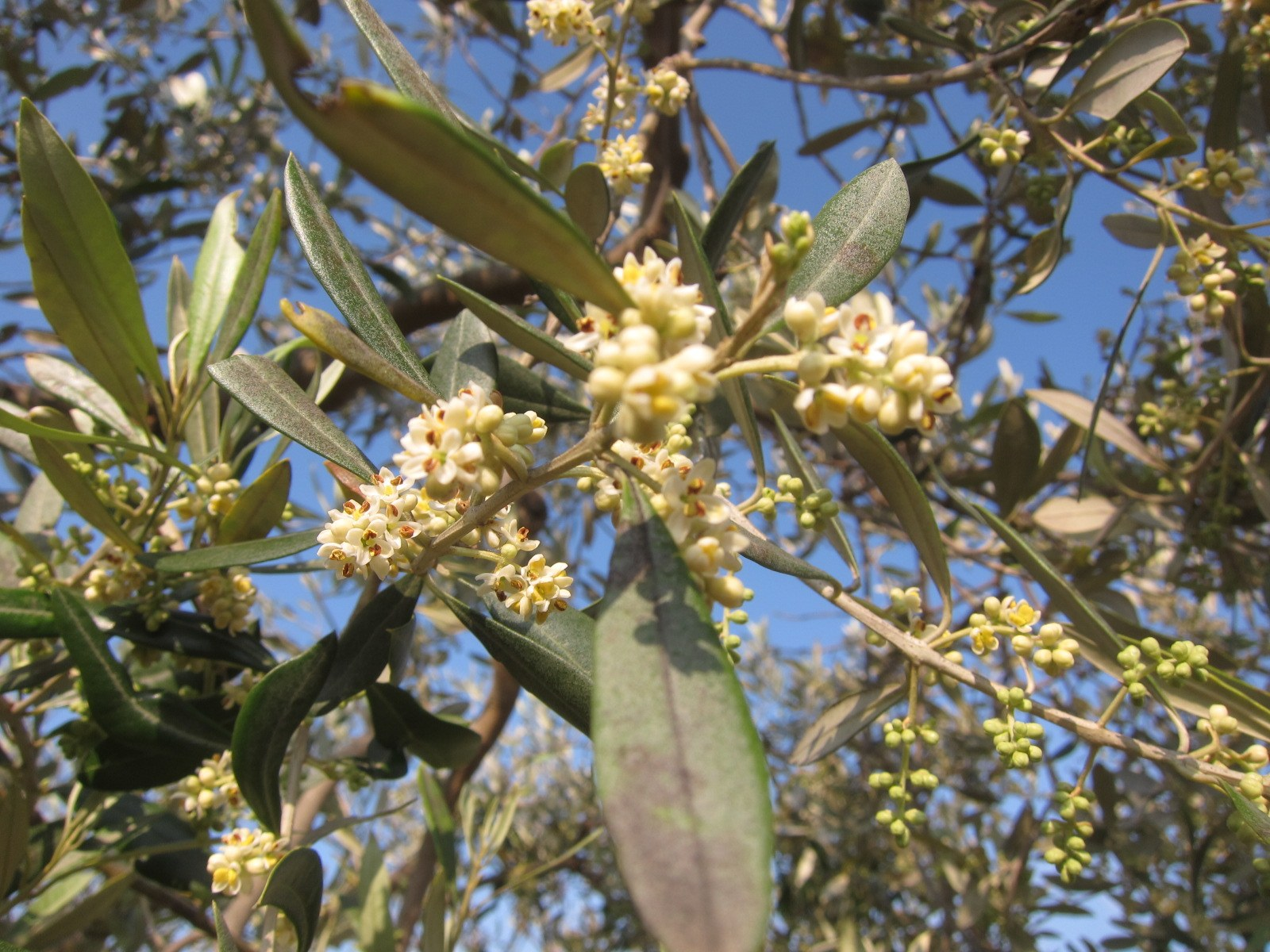 Nocellara del Belice in flowers